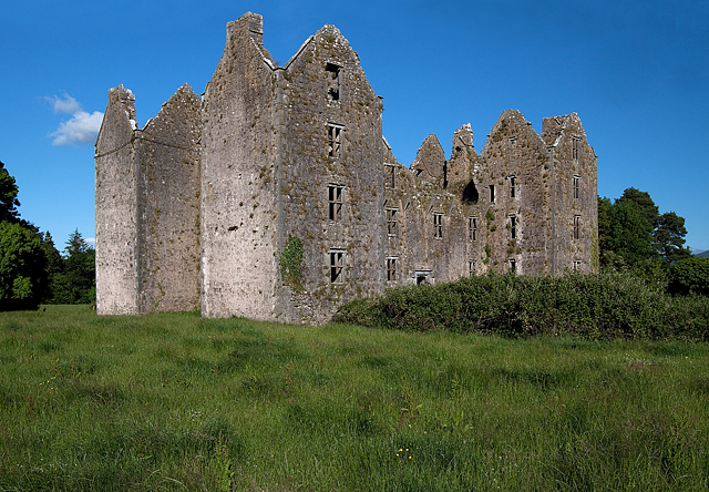 Castles of Munster: Burncourt, Tipperary In 1650 Clogheen as it was then called, was destroyed by fire by its owner Sir Richard Everard to prevent its occupation by Cromwellian troops. From then on Clogheen was known by the more appropriate name of Burncourt. As well as losing his fine home, the unfortunate Sir Richard also lost his life when he was hanged by General Ireton in 1651.